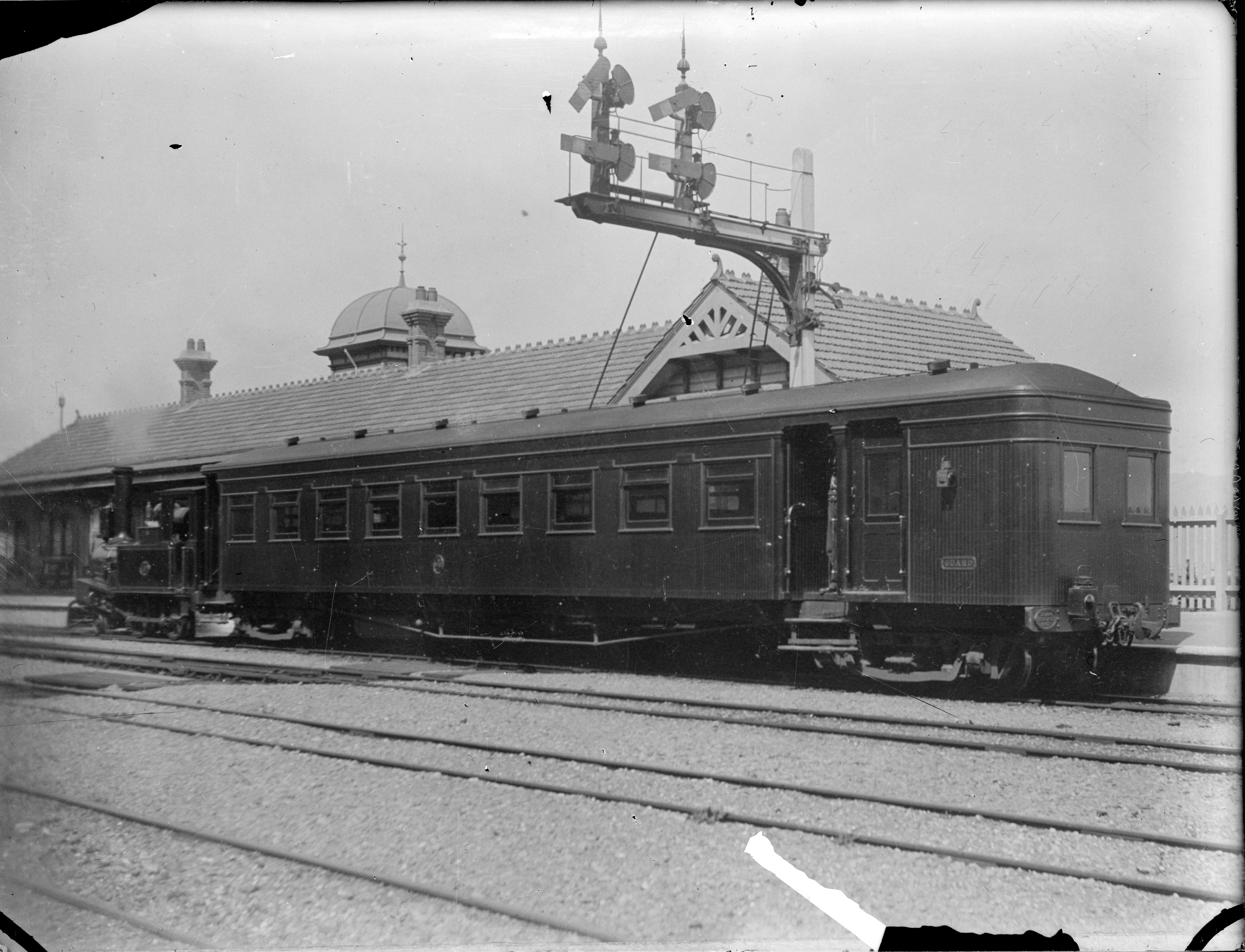 Rear view of the carriage behind steam locomotive "D" 197, at Lower Hutt Railway Station. A set of railway signals is near the rear of the carriage, with the engine on the left. On the side of the carriage is a sign "Guard". Photographed by Albert Percy Godber in 1906. For a view taken at the same time, showing the front of the engine, see APG-0312-1/2 (with an original print in Godber Album Vol 108, p 75), and a file print at: 385. Railways. Locomotives. Steam. D Class.